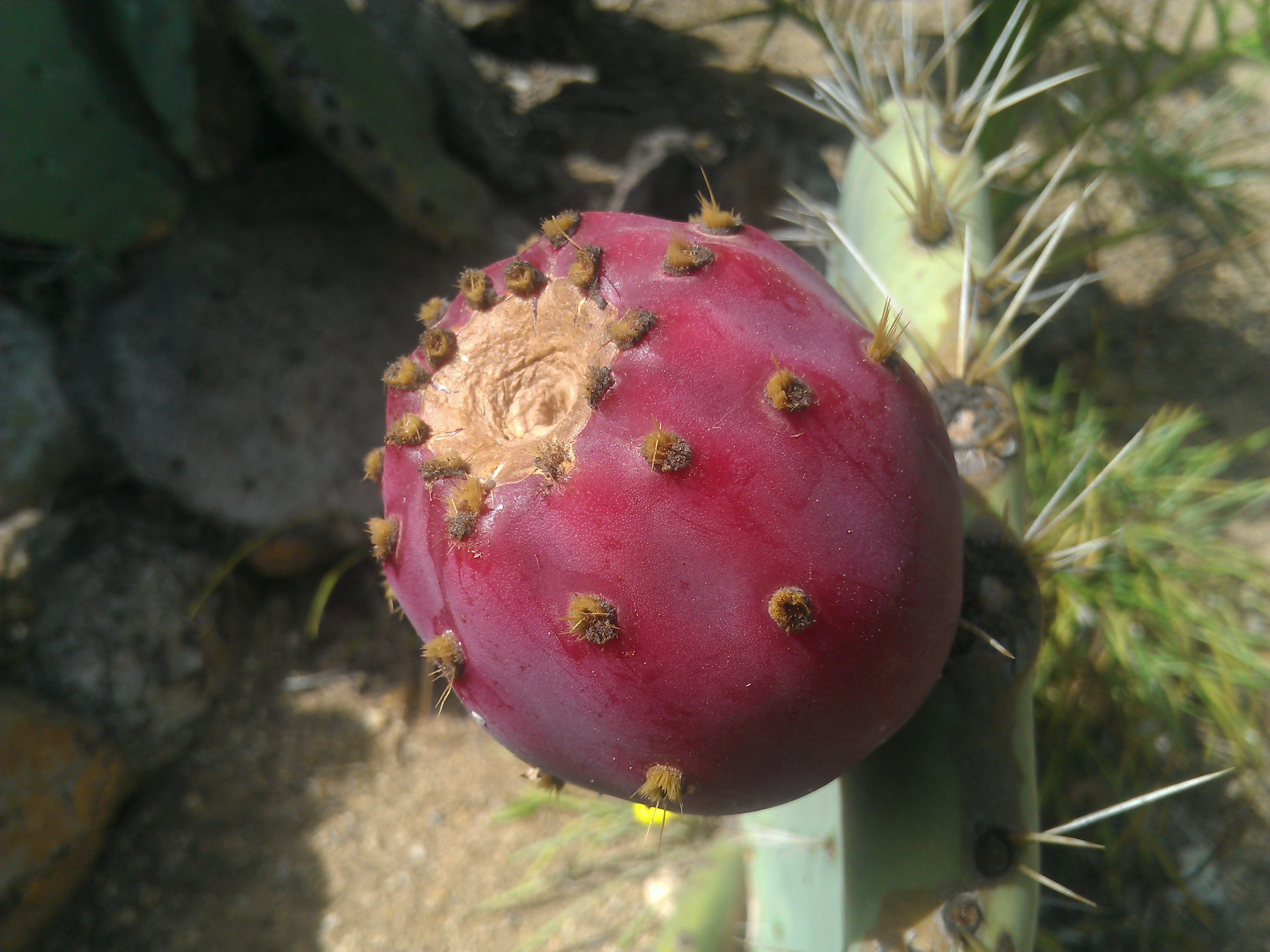 The fruit of prickly pear cactus